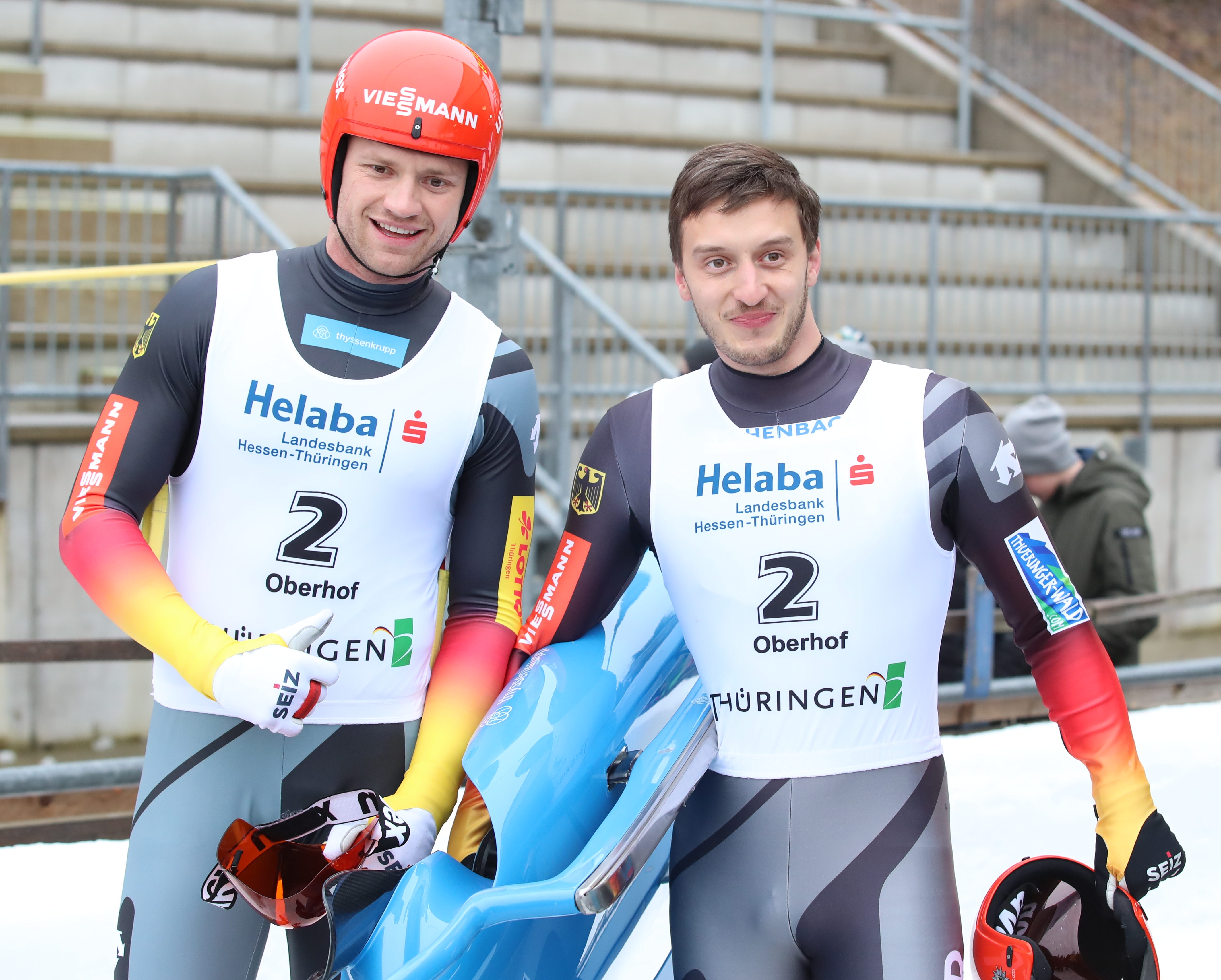 Doubles race at the German Luge Championships 2019 in Oberhof